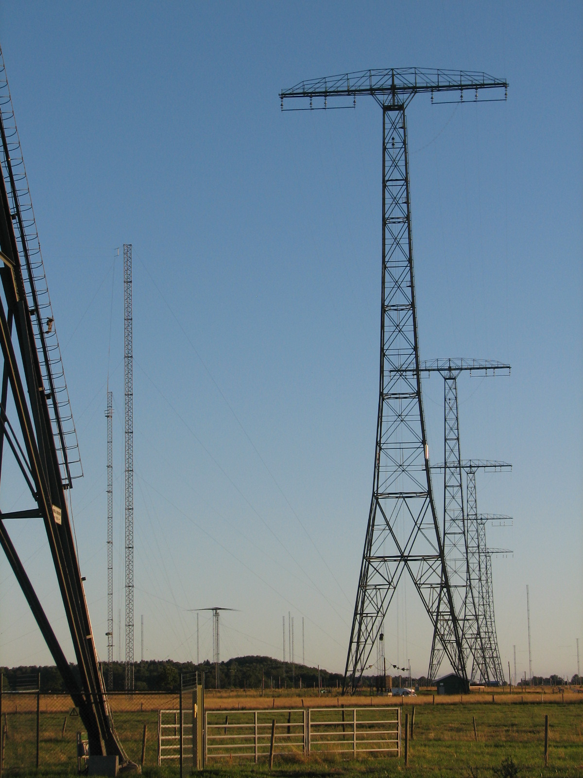 Mast row for the VLF transmitter SAQ at Grimeton, Sweden. Many shortwave antennas are seen in the background.